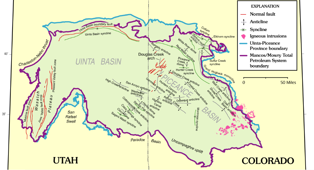 Uinta Piceance Basins geologic map